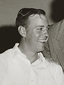 3rd Ashes Test at MCG. After the first days play the Aussies collected in the dressing room to toast each other for the new year. Ron Archer